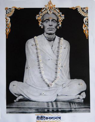 Sri Ram Thakur